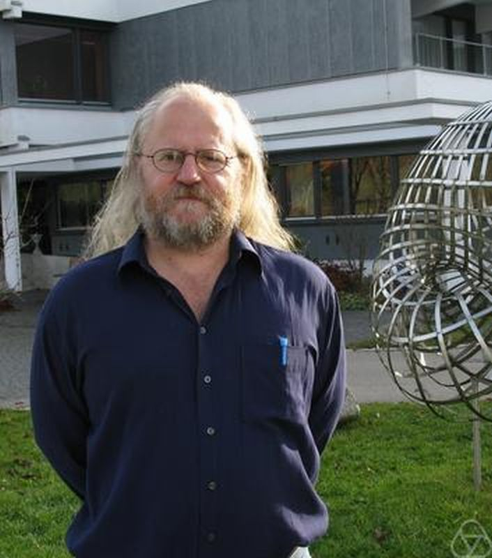 Franz Lemmermeyer, Oberwolfach 2011